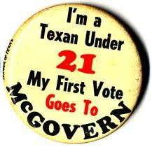 McGovern Texas button1